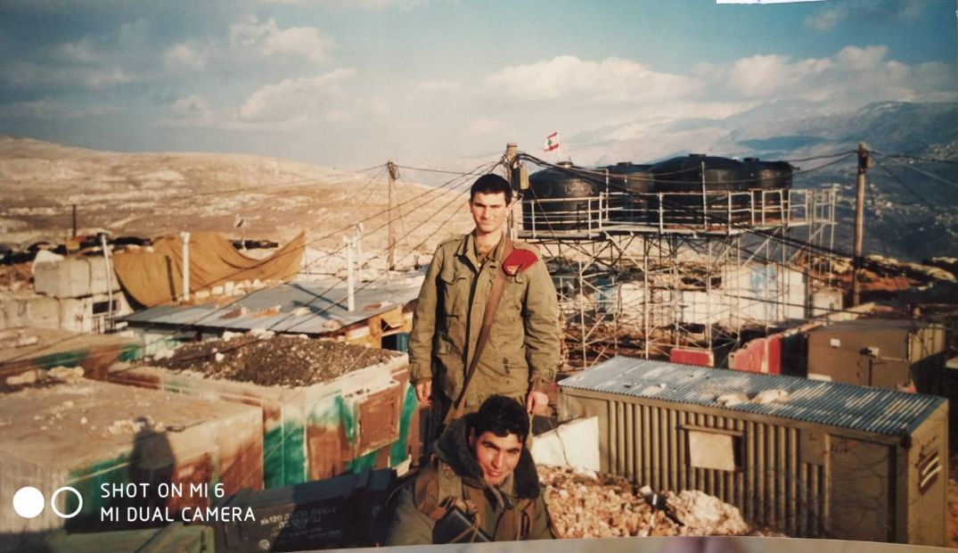 Kawkaba military base sounth lebanon